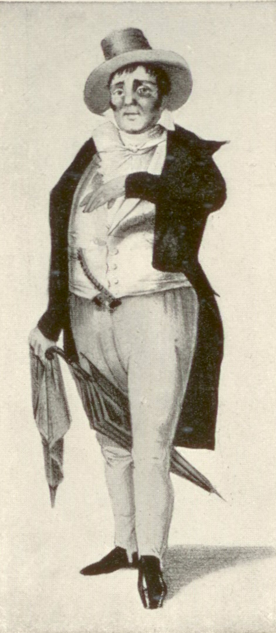 German actor and singer Samuel Friedrich Hassel (1798-1876) as Hampelmann in Die Landpartie nach Königstein by Carl Balthasar Malß.